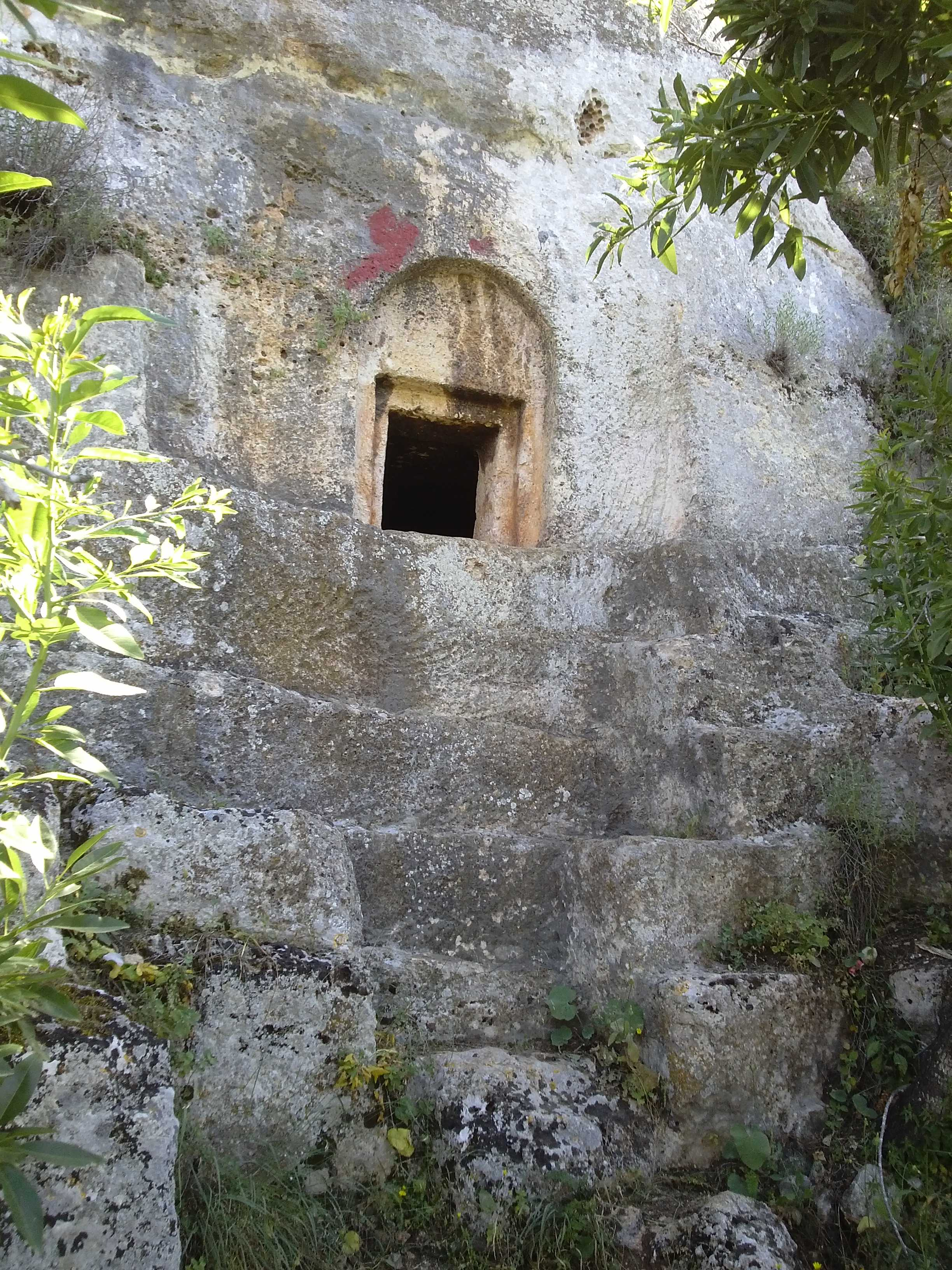 Mukata Abud - 2nd Temple period Jewish necropolis near the West Bank village Abud.